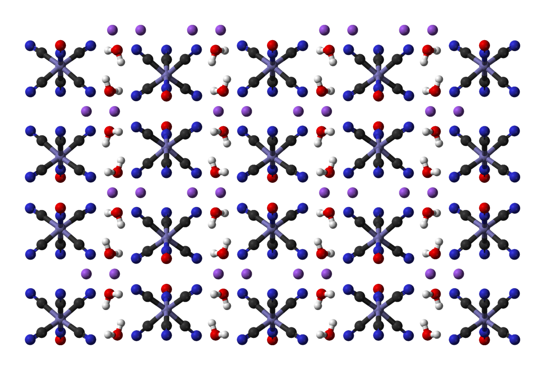 Ball-and-stick model of part of the crystal structure of sodium nitroprusside, Na2[Fe(CN)5NO]. Neutron crystallographic data from Acta Cryst. (1989). C45, 839-841. Model constructed in CrystalMaker 8.1. Image generated in Accelrys DS Visualizer.